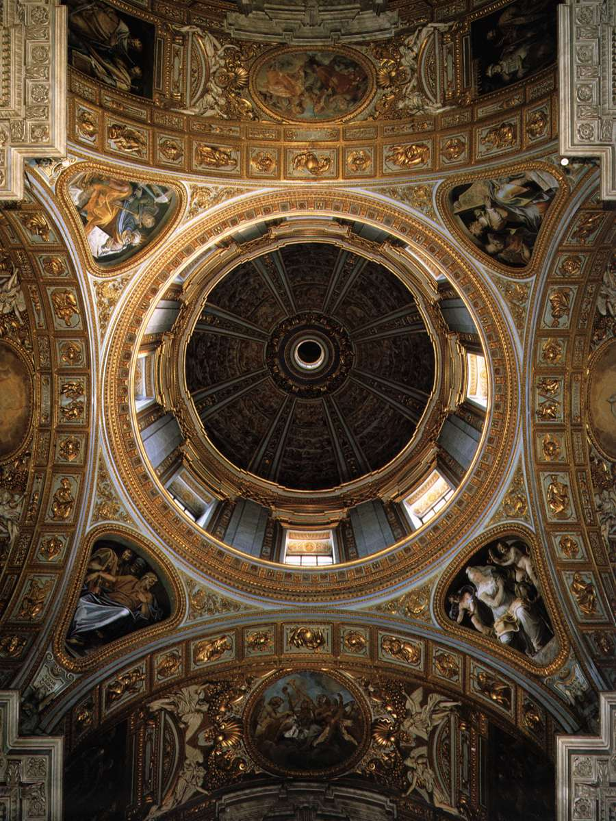 The Dome of the Sistine Chapel